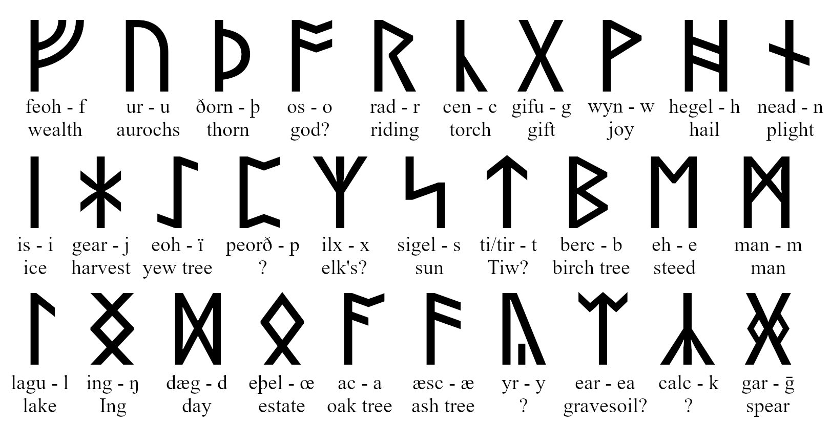 This is a chart which shows 30 Anglo-Saxon "futhorc" runes. It shows their names, transliteration characters, and the meanings of their names.